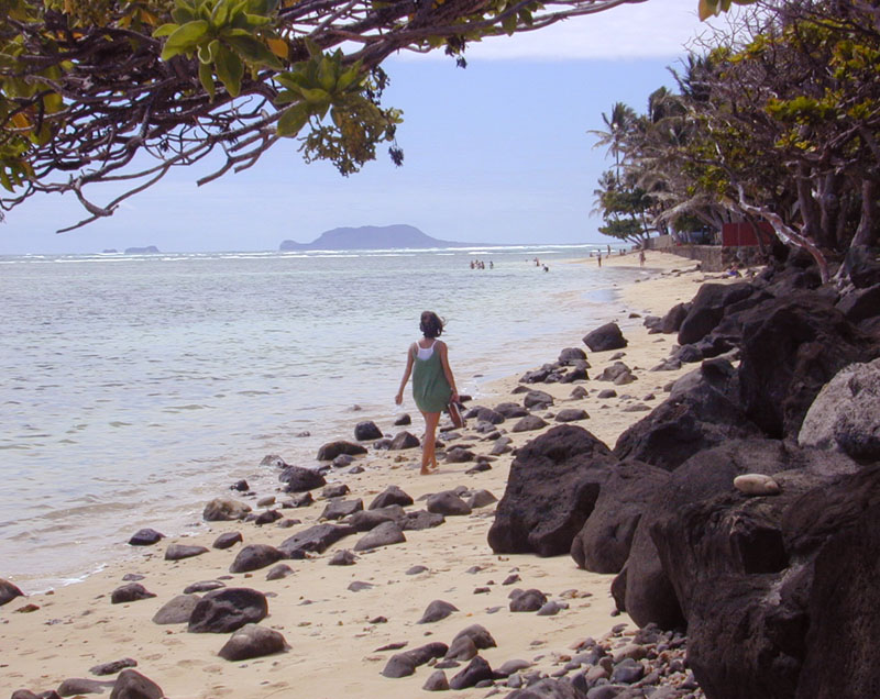 The beach at Ka'a'awa on Oahu, Hawaii. Photograph by Eric Guinther taken on July 30, 2000 and released under the GNU Free Documentation License.